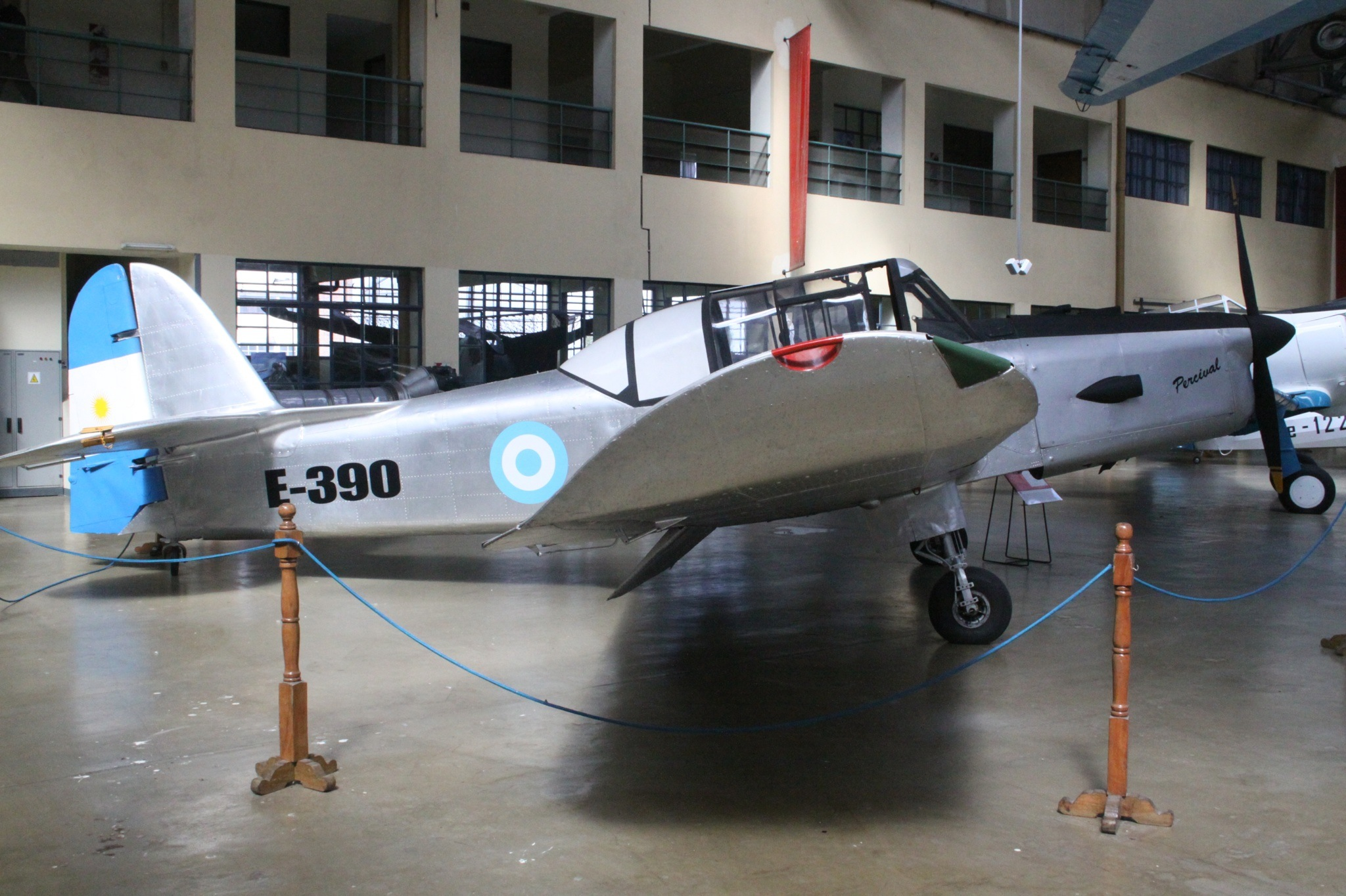 At Moron Museo Nactional De Aeronautica